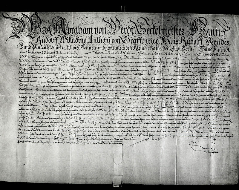 tax-exemption treaty dated 1649, villagers of Englisberg